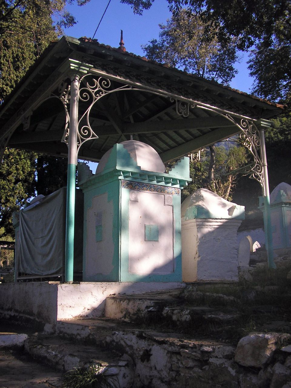 Tomb of Sidi-Ahmed El-Kebir, Blida’s founder by oral tradition (Algeria).